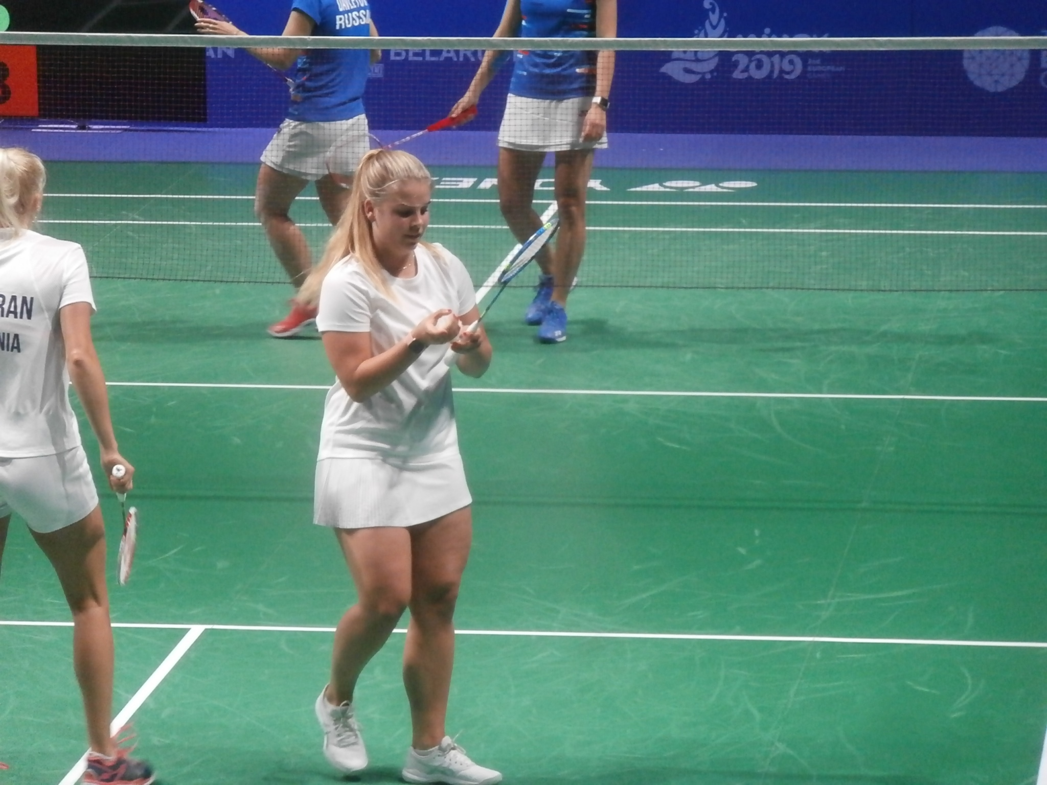 Helina Rüütel and Kati-Kreet Marran against Alina Davletova and Ekaterina Bolotova on badminton court in Falcon Club in Minsk 27 June 2019